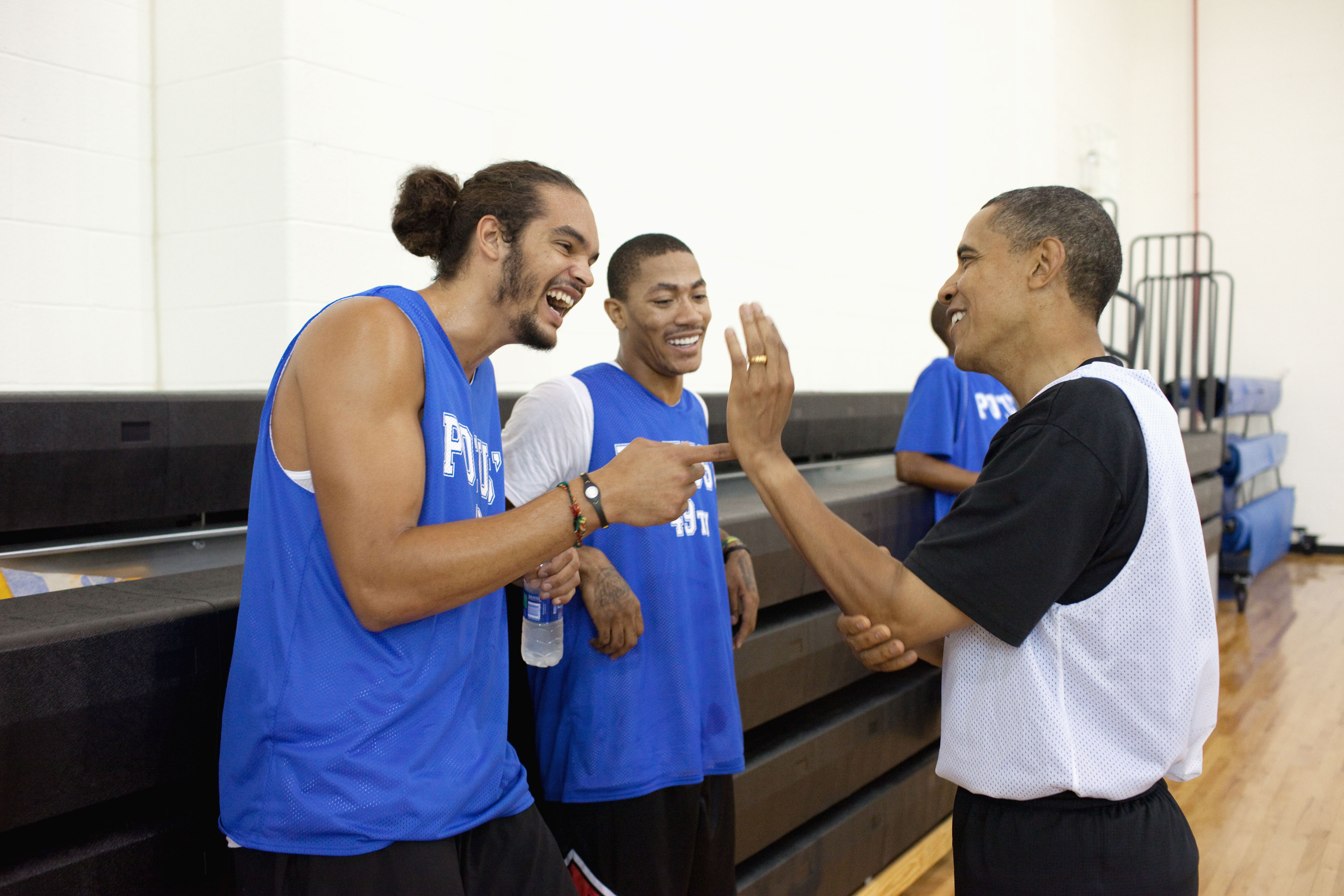 President Barack Obama jokes with Chicago Bulls players Joakim Noah and Derrick Rose. The President played basketball with friends, college and professional basketball players, before an audience that included wounded warriors and White House mentees at Fort McNair in Washington, D.C., August 8, 2010.